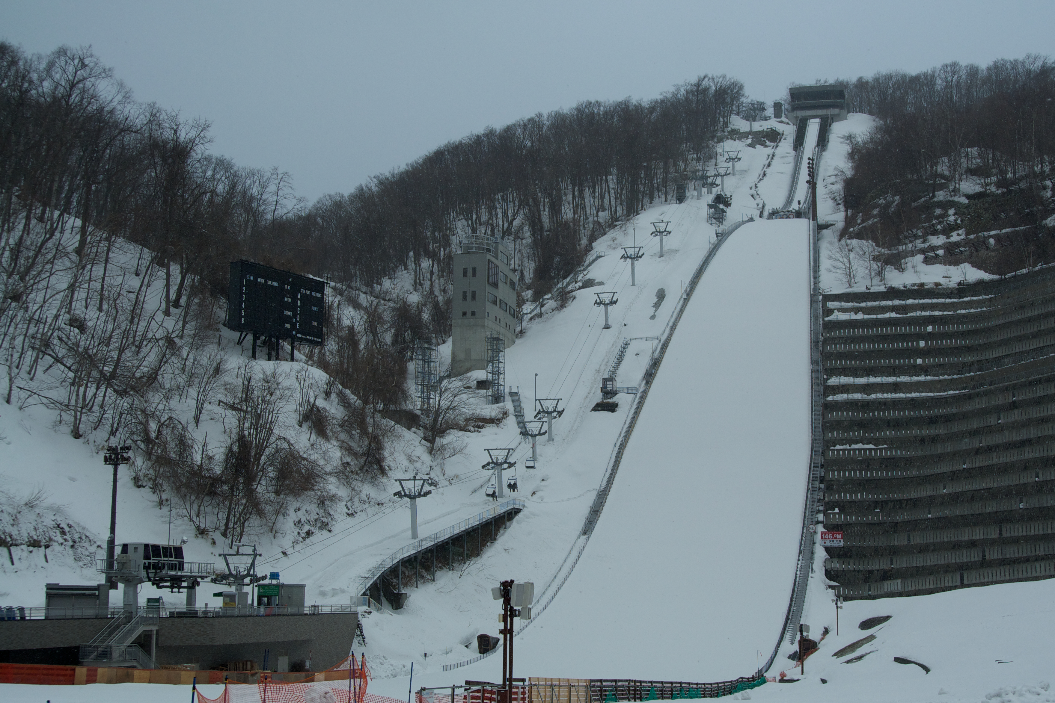 The Okurayama Ski Jump was the stage for the 90 meter jump (currently referred to as “large hill") competition at the 1972 Winter Olympics held in Sapporo.